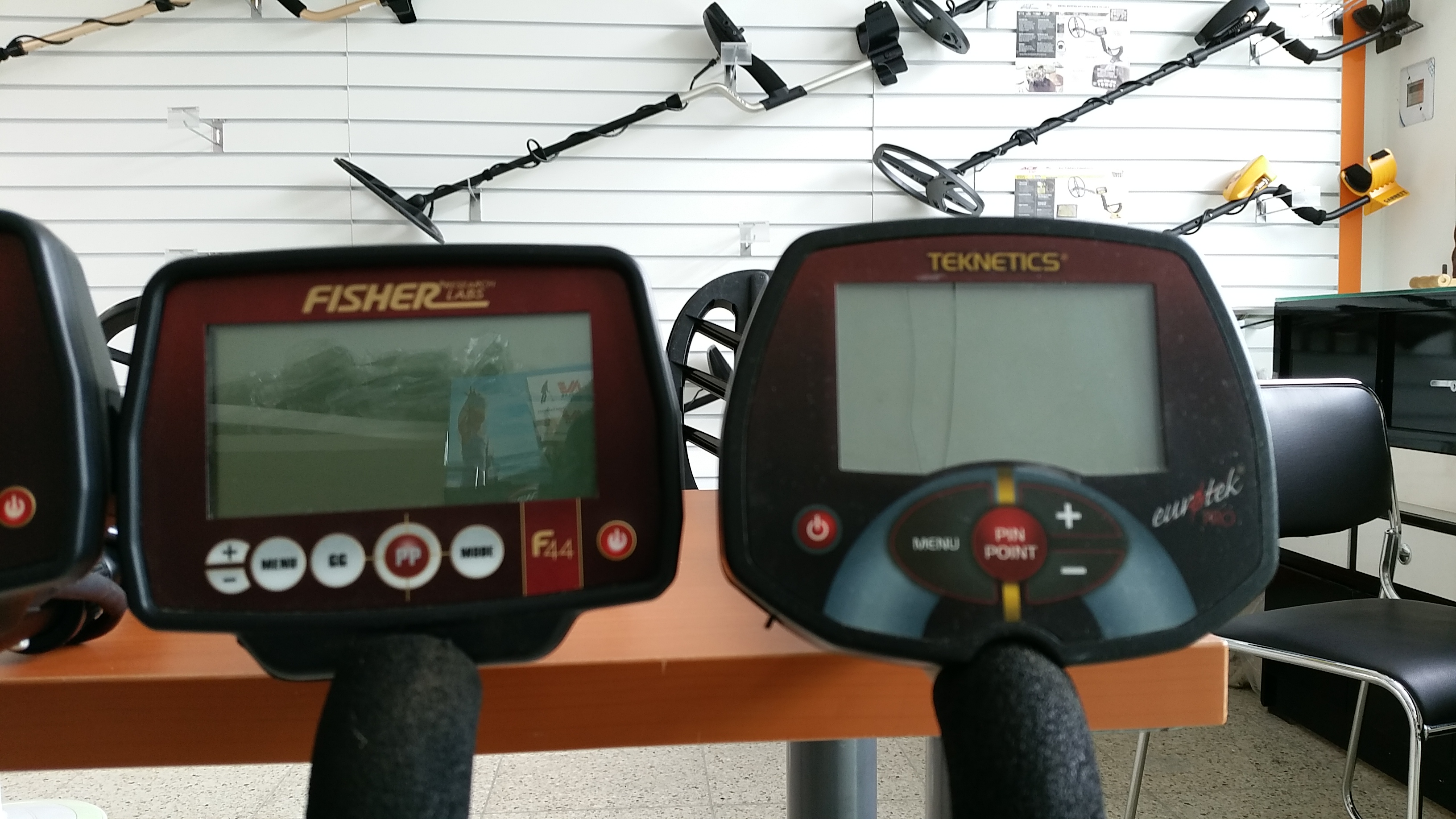 Metal detectors